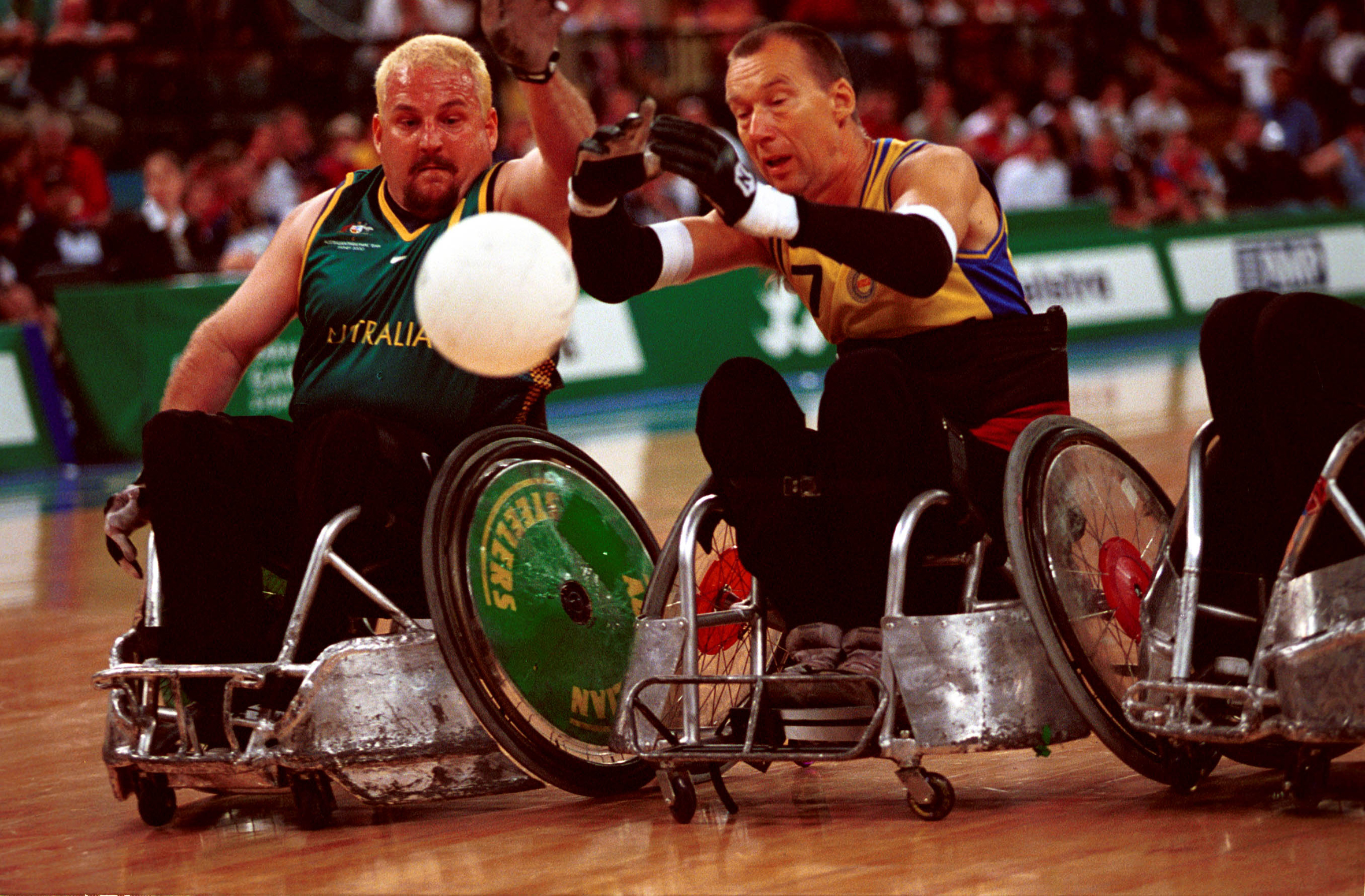 Action shot of Australian wheelchair rugby "Steelers" player George Hucks chasing the ball during 2000 Sydney Paralympic Games match